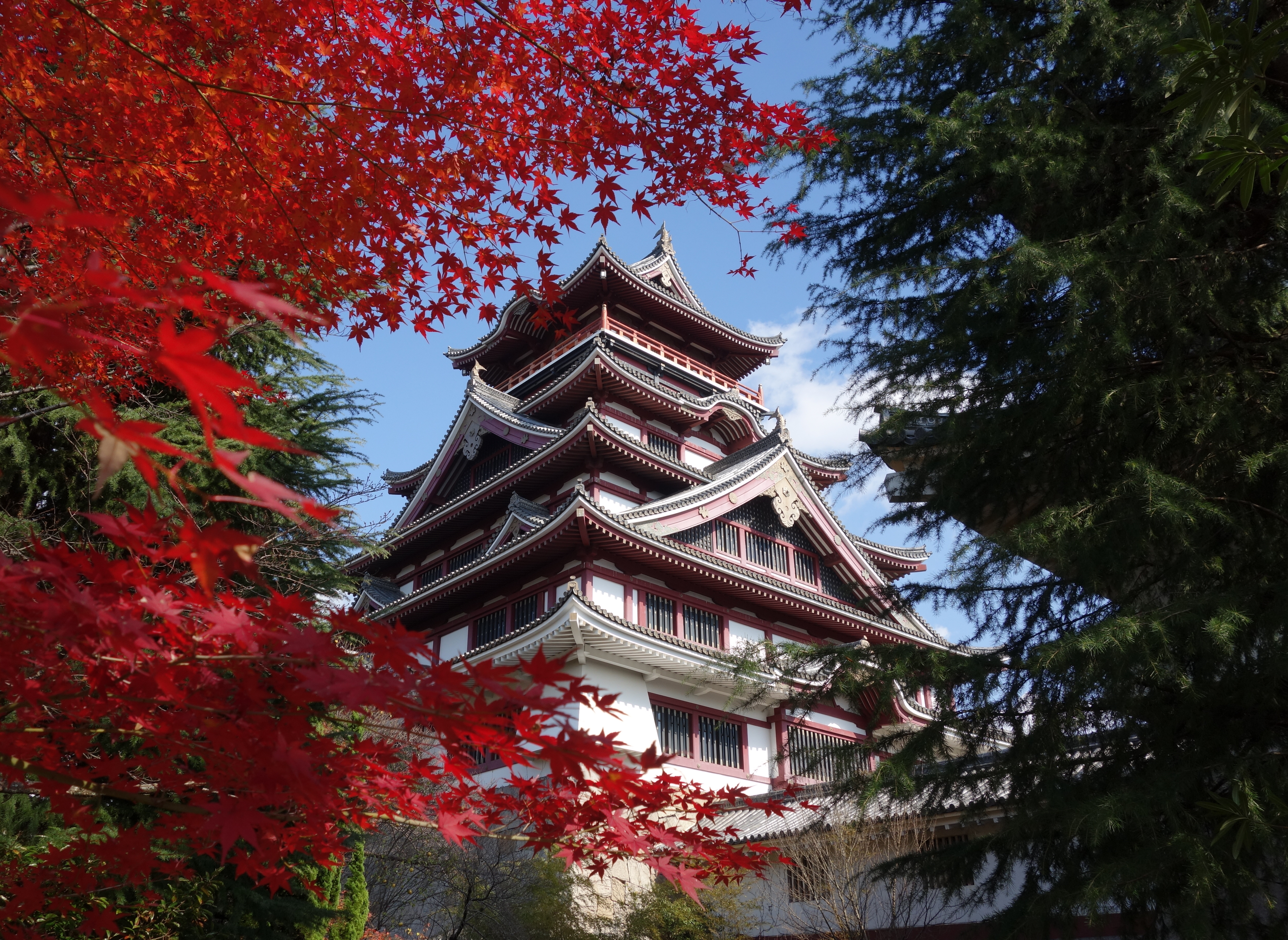 Fushimi-Momoyama Castle in autumn. The view includes a maple tree in autumn foliage.